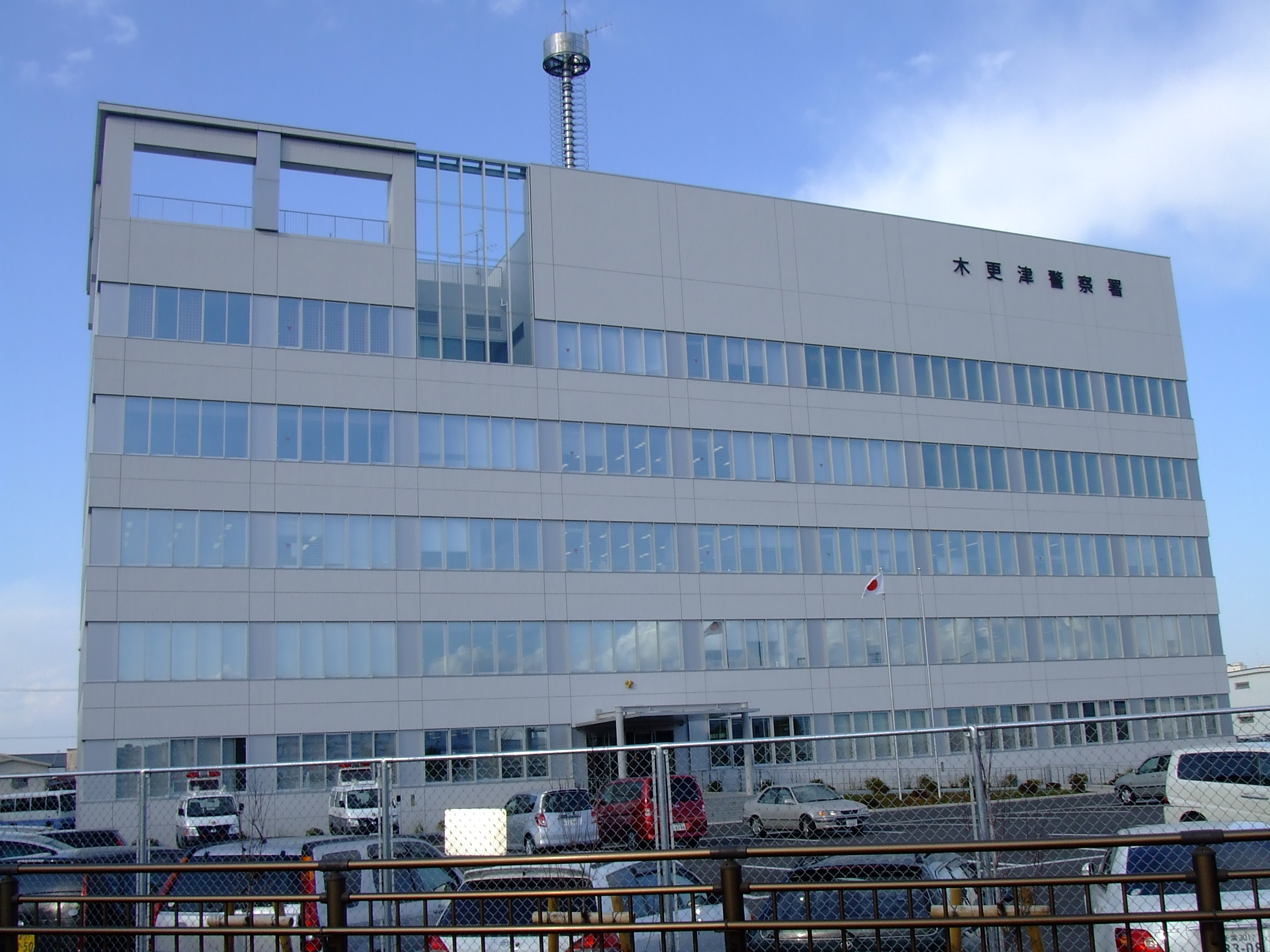 Kisarazu Police Station